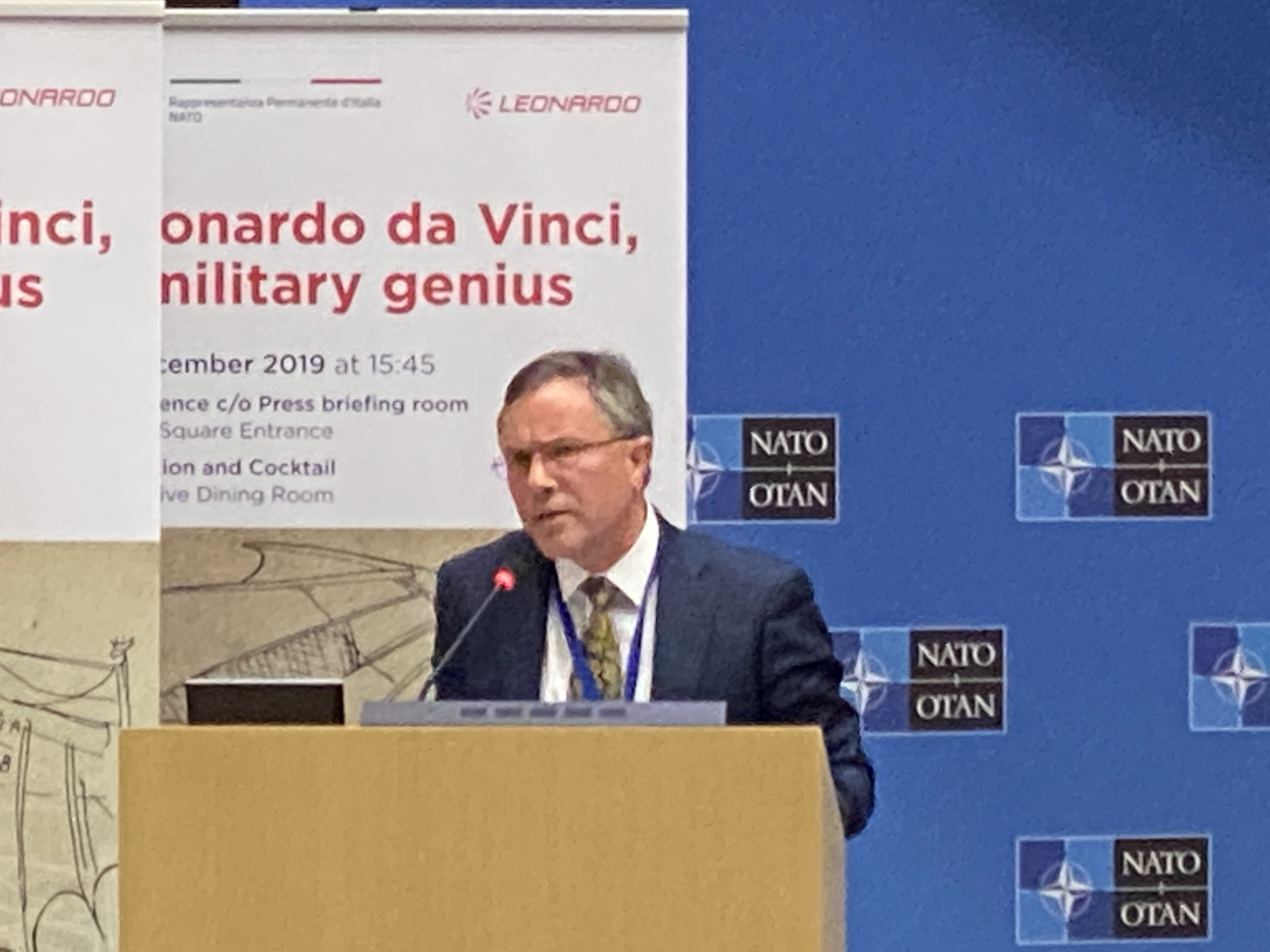 Dr. Bryan Wells Chief Scientist NATO, Deceemer 2019